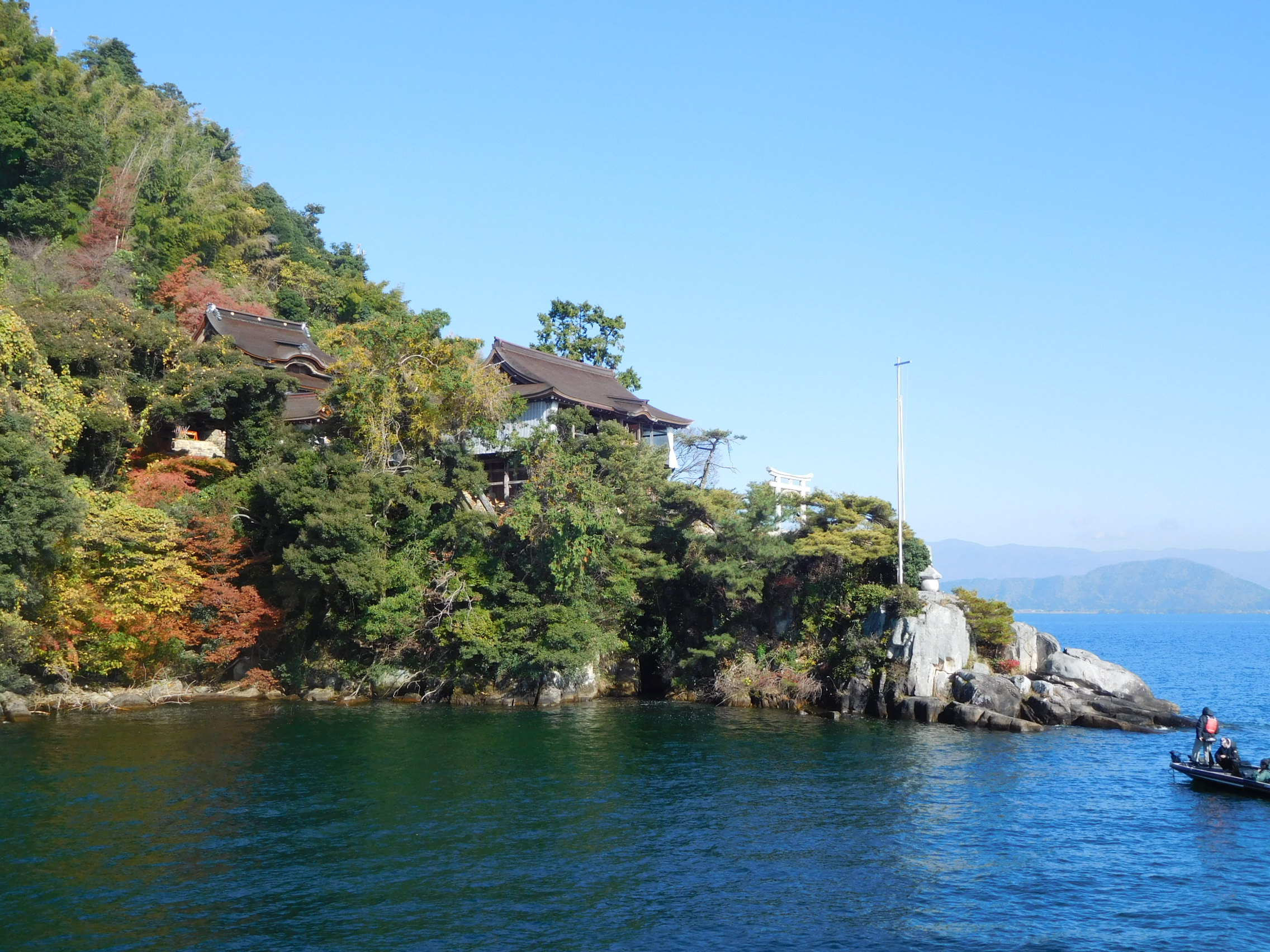 Chikubu Island, Shiga Prefecture, Japan.